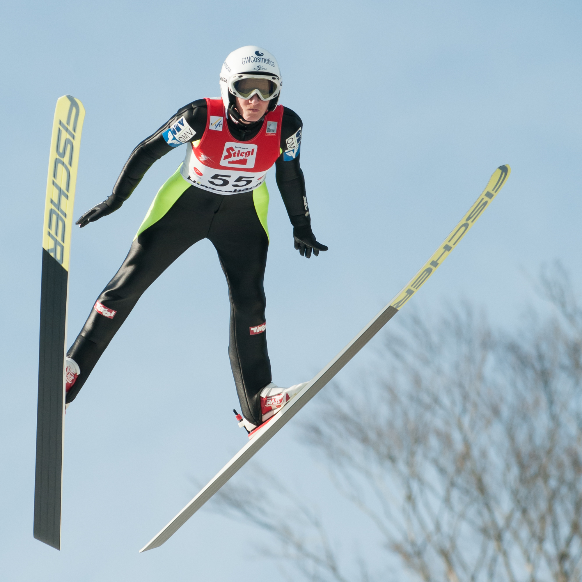 FIS Ski Jumping World Cup Ladies Hinzenbach 2016-02-07